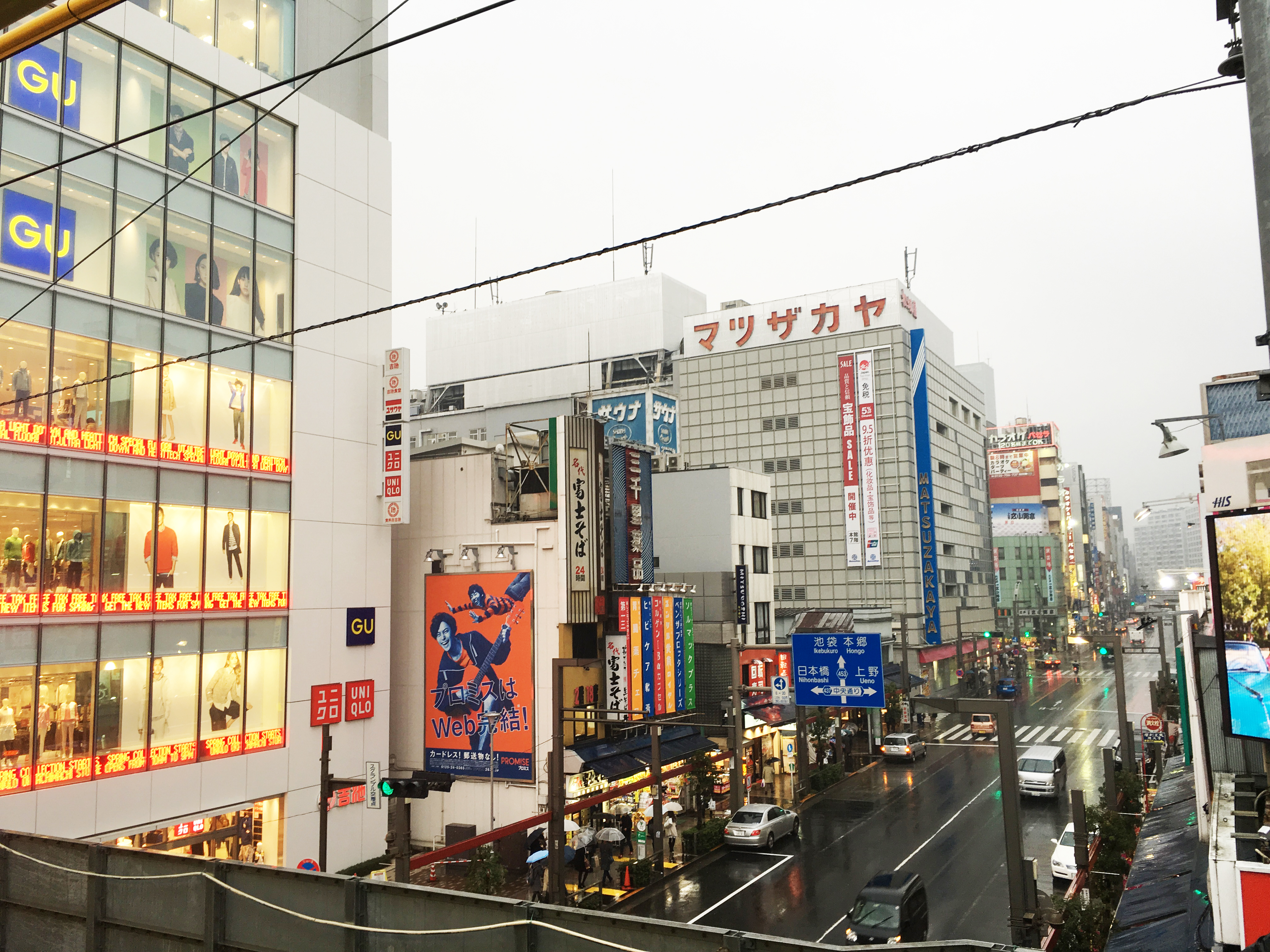 Taken from a platform of outbound lines at Okachimachi Station